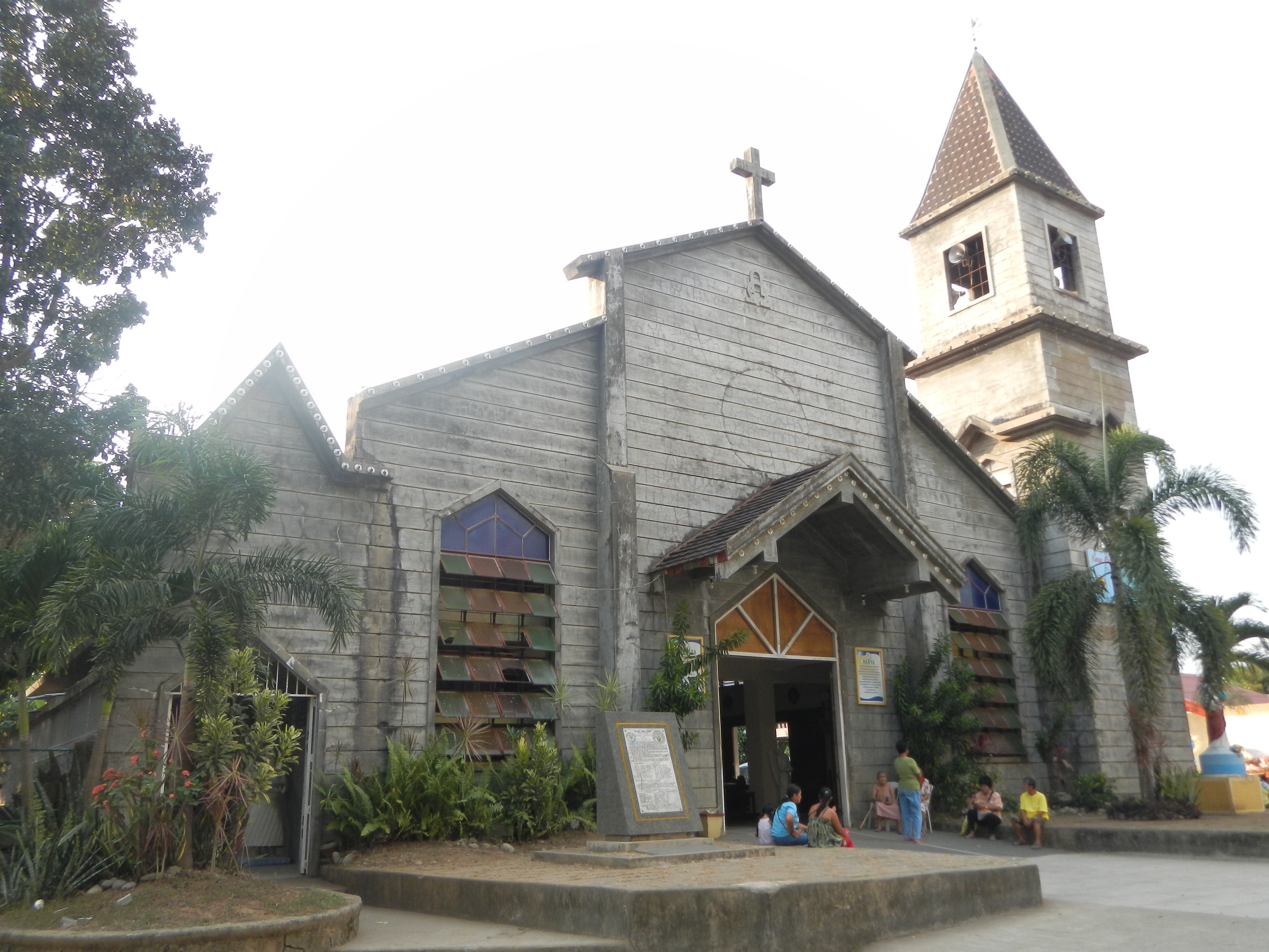 1909 Holy Family Family Parish Church, Pugo, Roman Catholic Diocese of San Fernando de La Union (Dioecesis Ferdinandopolitana ab Unione) Suffragan of Lingayen – Dagupan Created: January 19, 1970. Erected : April 11, 1970. Comprises the Civil Province of La Union. Titular: St. William the Hermit, February 10. (F-1909) 2508 La Union Titular: Holy Family, Last Sunday of December Parish Priest: Fr. Crispin N. Reyes[1] Vicariate of St. Francis Xavier Vicar Forane: Fr. Joel Angelo Licos Pugo, La Union[2]